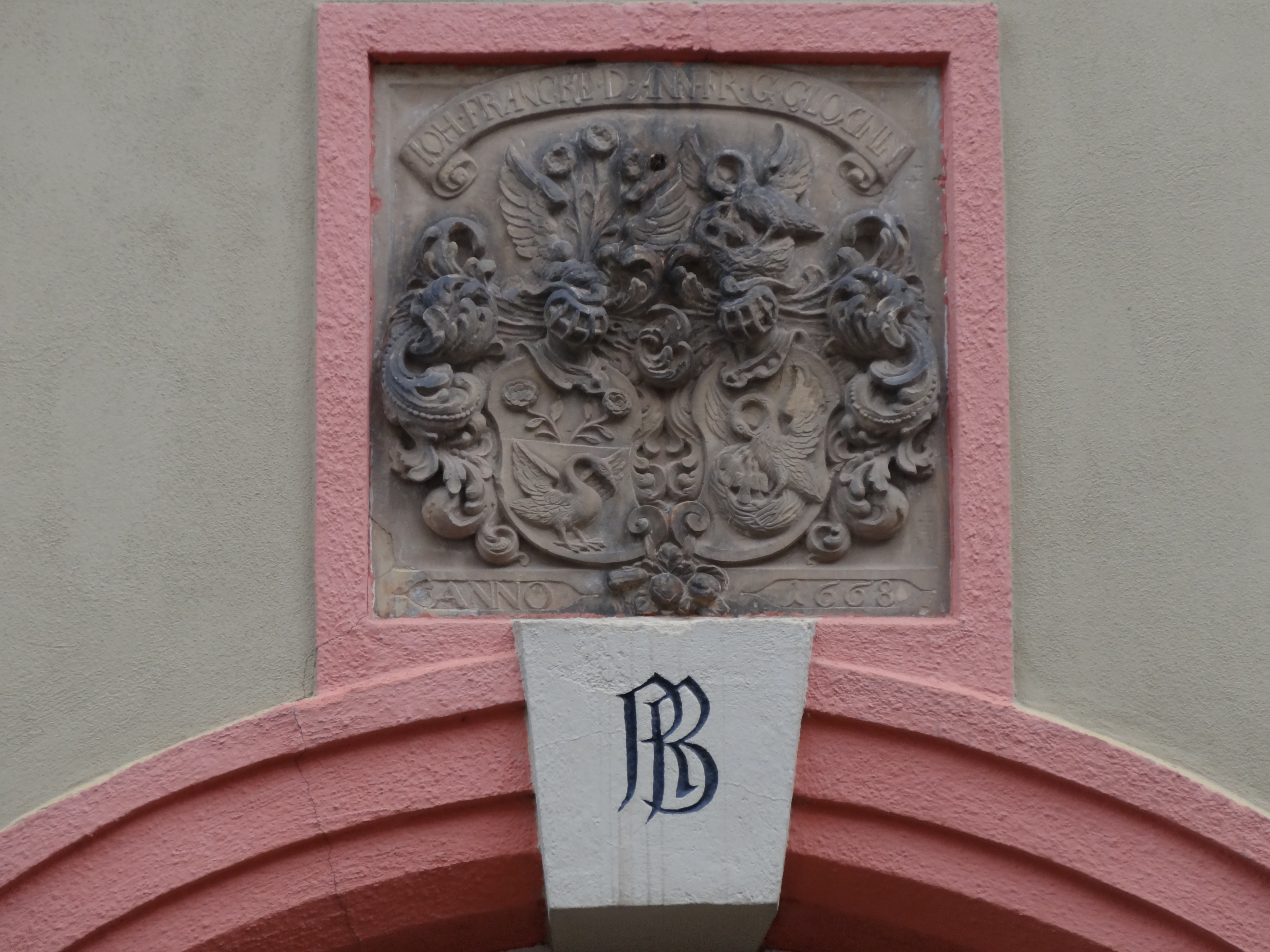 Coats of arms above the entrance of the Francke house in Querstraße 21, Gotha, Thuringia, Germany